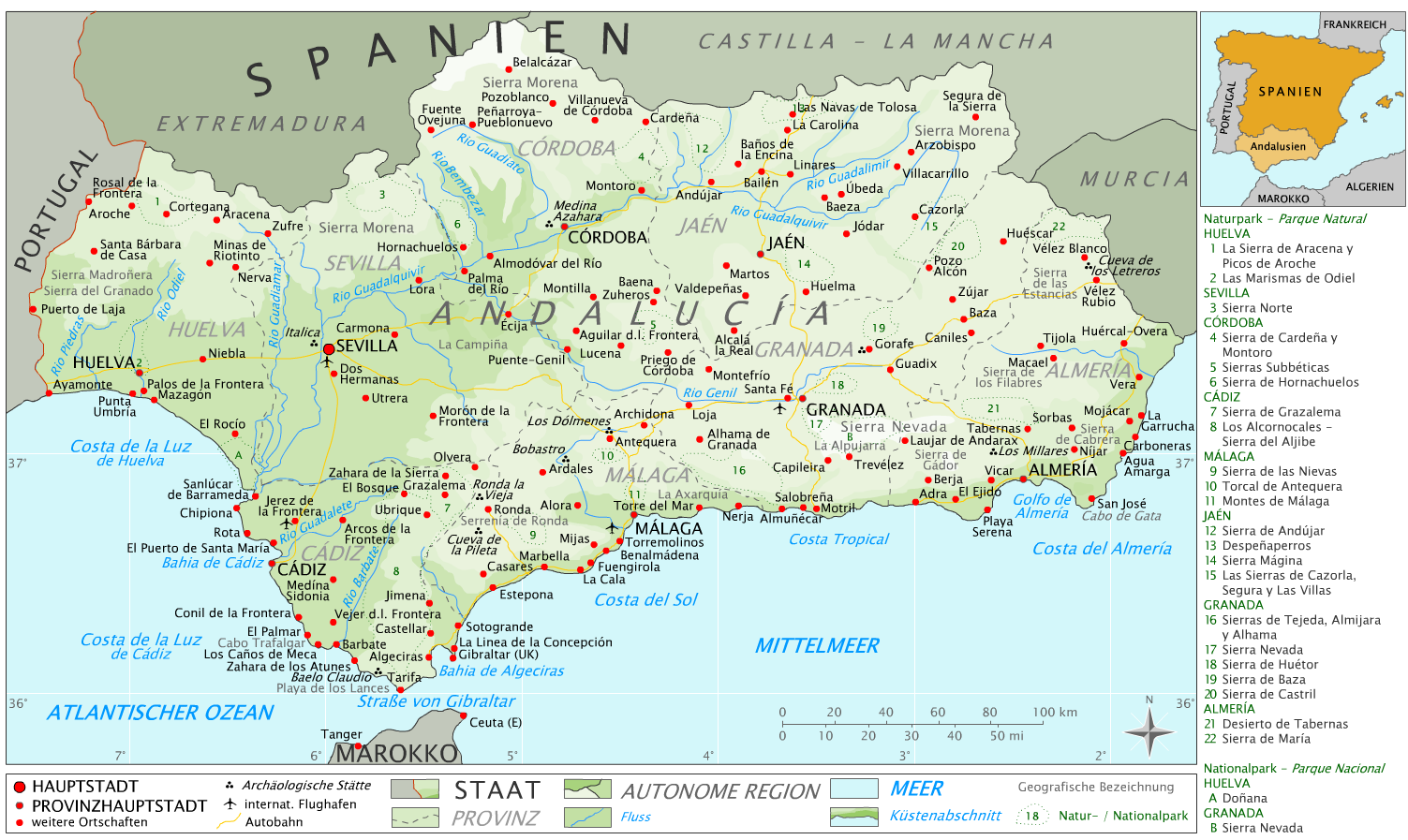 Andalusia (Spain)